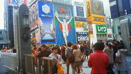 Ebisubashi Bridge. Ebisubashi Bridge, Osaka/Chuou-ku.